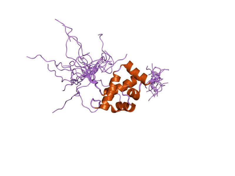 Cartoon representation of the molecular structure of protein registered with 2csf code.